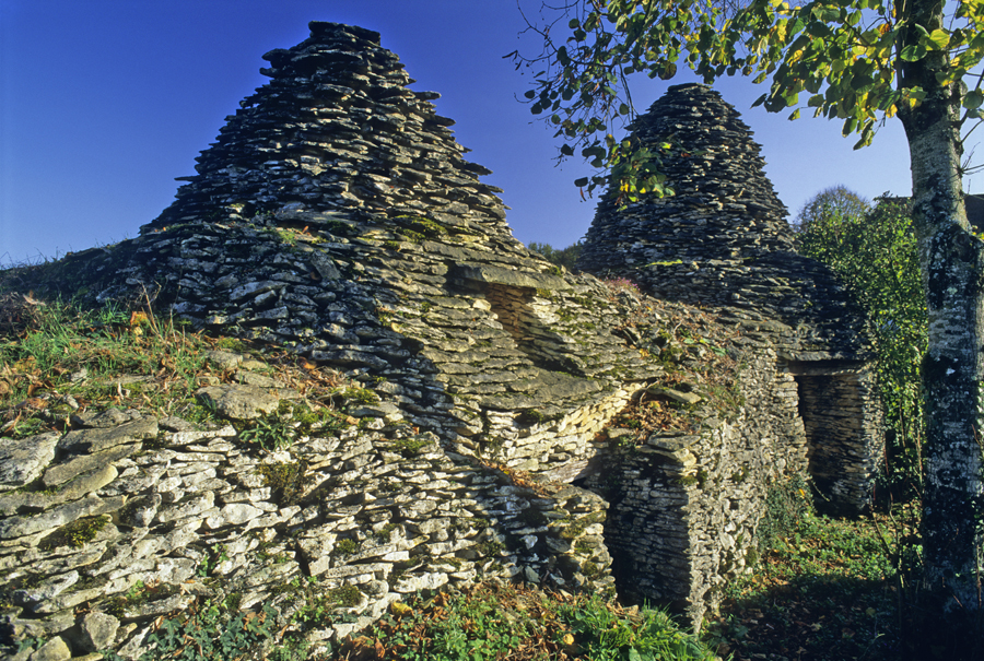 Two conjoined dry stone huts located at a place called Les cabanes at Valojoulx, Dordogne, France. Communication between them is through an internal corridor. These huts are on their way to ruin as their covering of stone tiles is gone, baring the extrados of each corbelled vault.